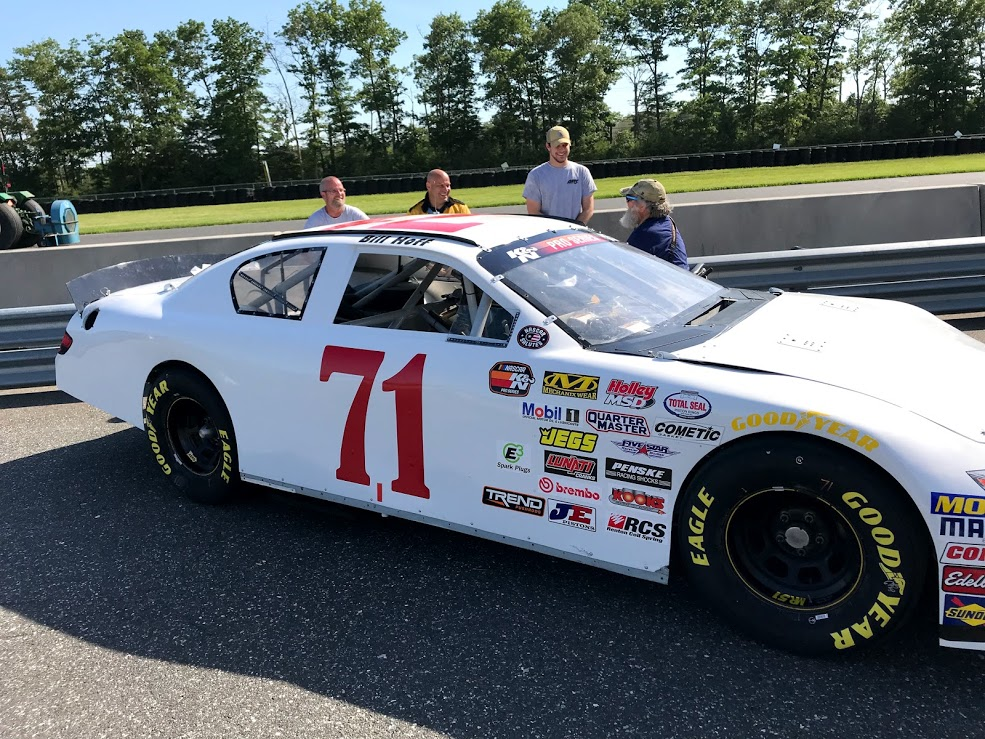 Bill Hoff's NASCAR K&N Pro Series East car at New Jersey Motorsports Park in 2018.